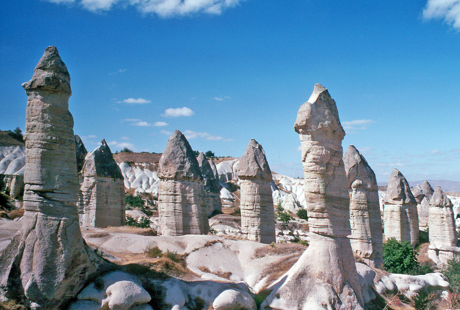 "Love Valley" near Göreme (Turkey)